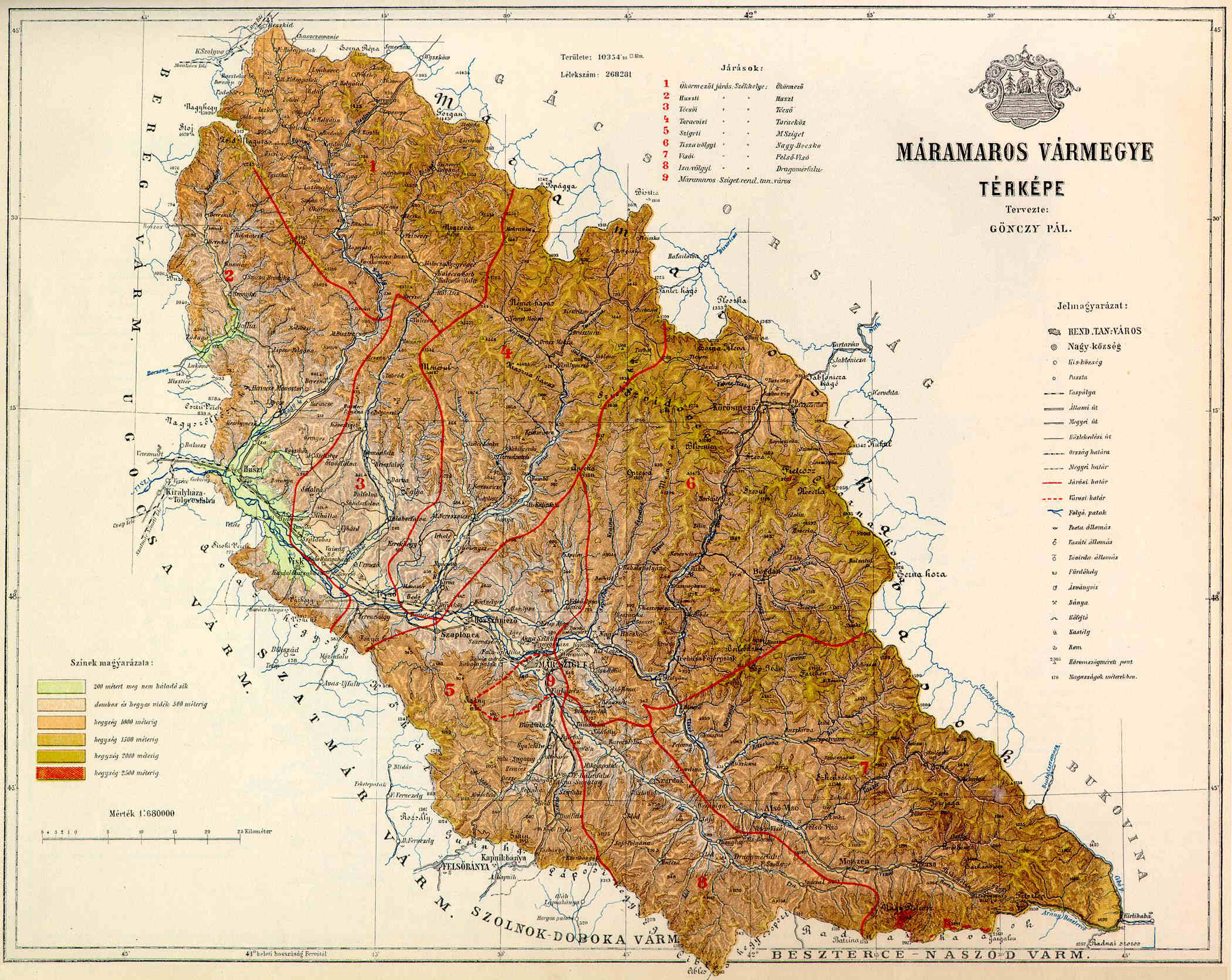 County of Máramaros in the pre-Trianon Kingdom of Hungary. Komitat Máramaros w Królestwie Węgier przed traktatem w Trianon.